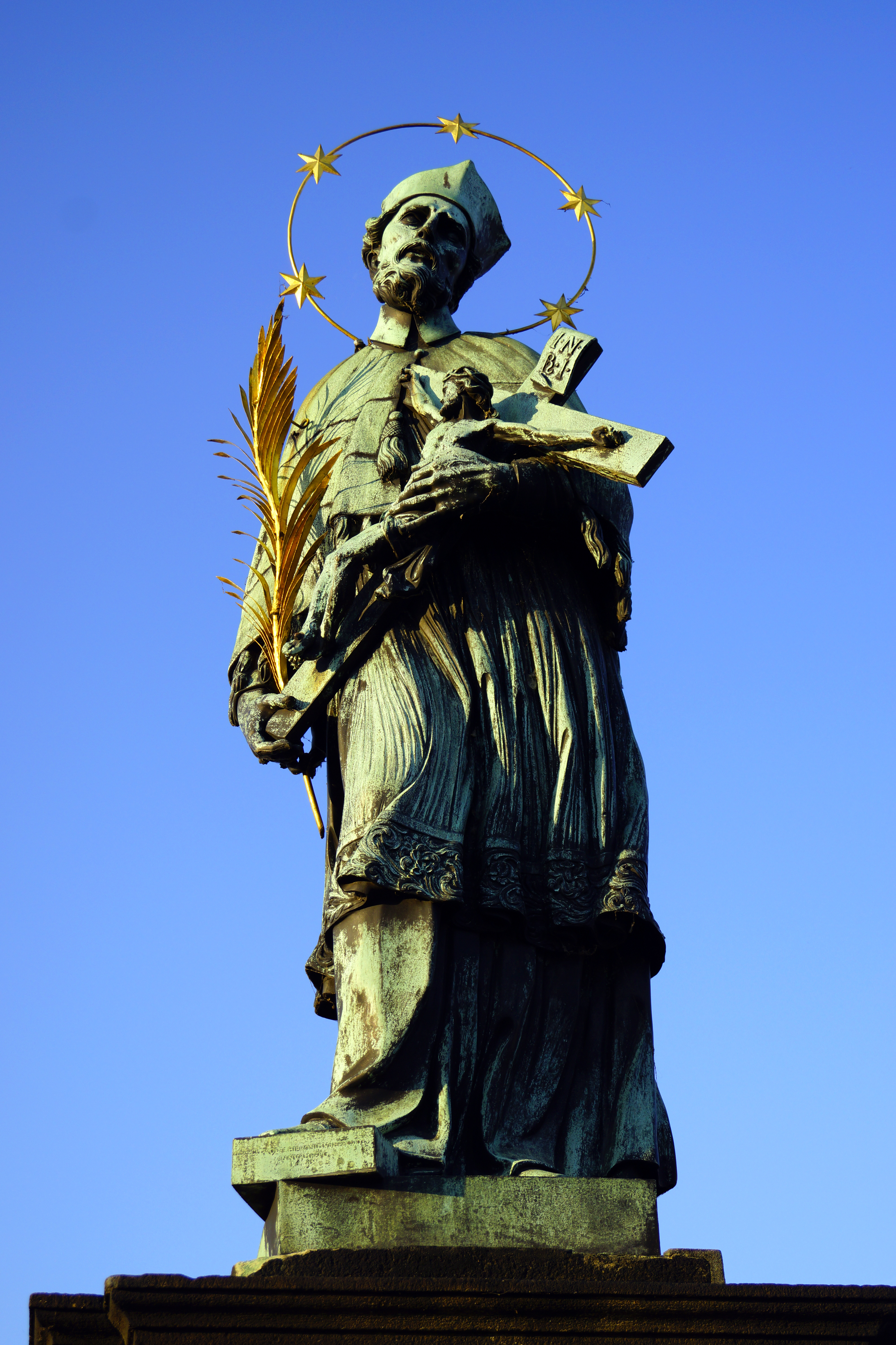 Statue of Saint John of Nepomuk on the Charles Bridge, Prague, Czech Republic.